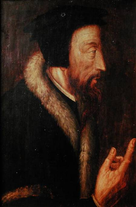 Anonymous 16th century portrait of Calvin. (Front cover Cottret, Bernard (2000), Calvin: A Biography, Grand Rapids, Michigan: Wm. B. Eerdmans)